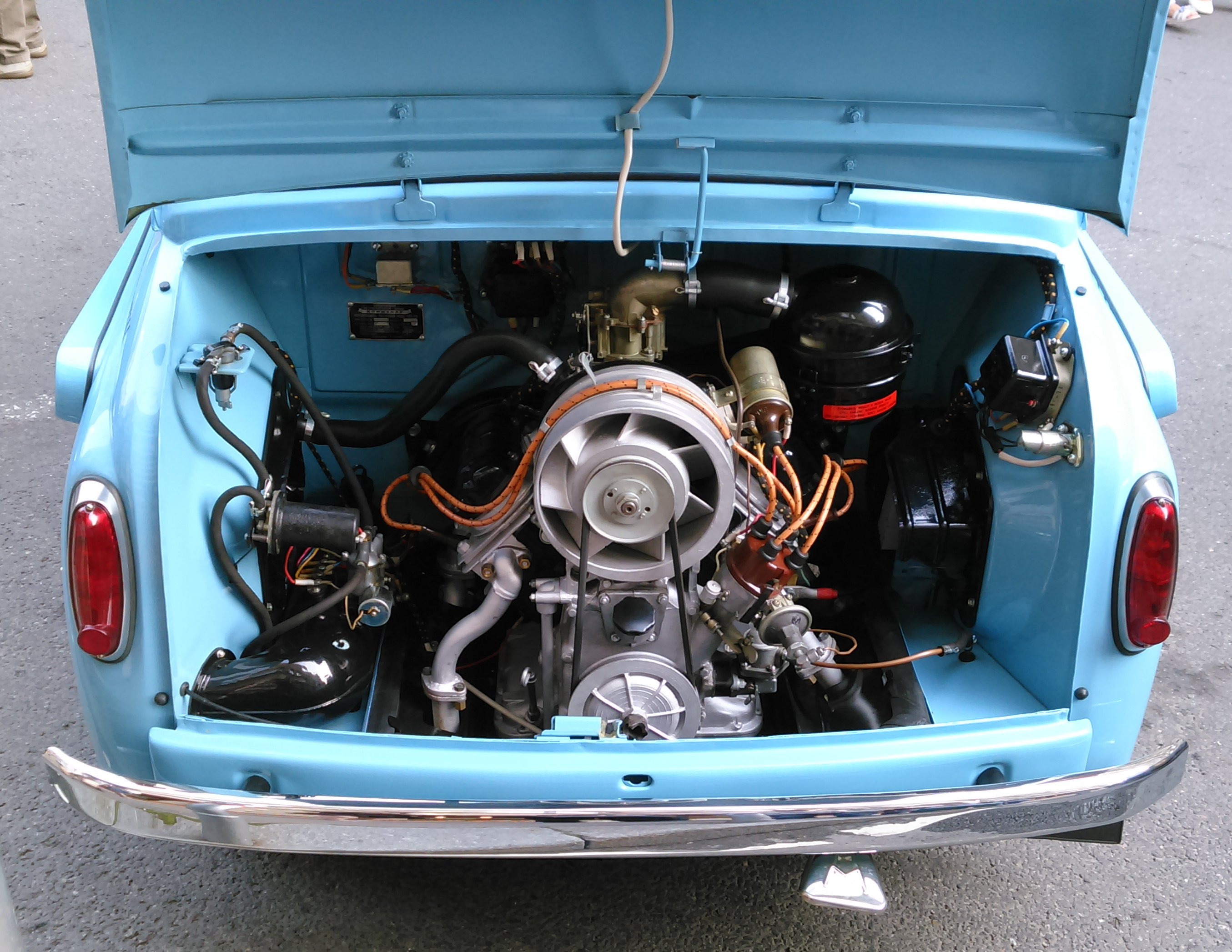 Engine bay of a ZAZ-965 small car.